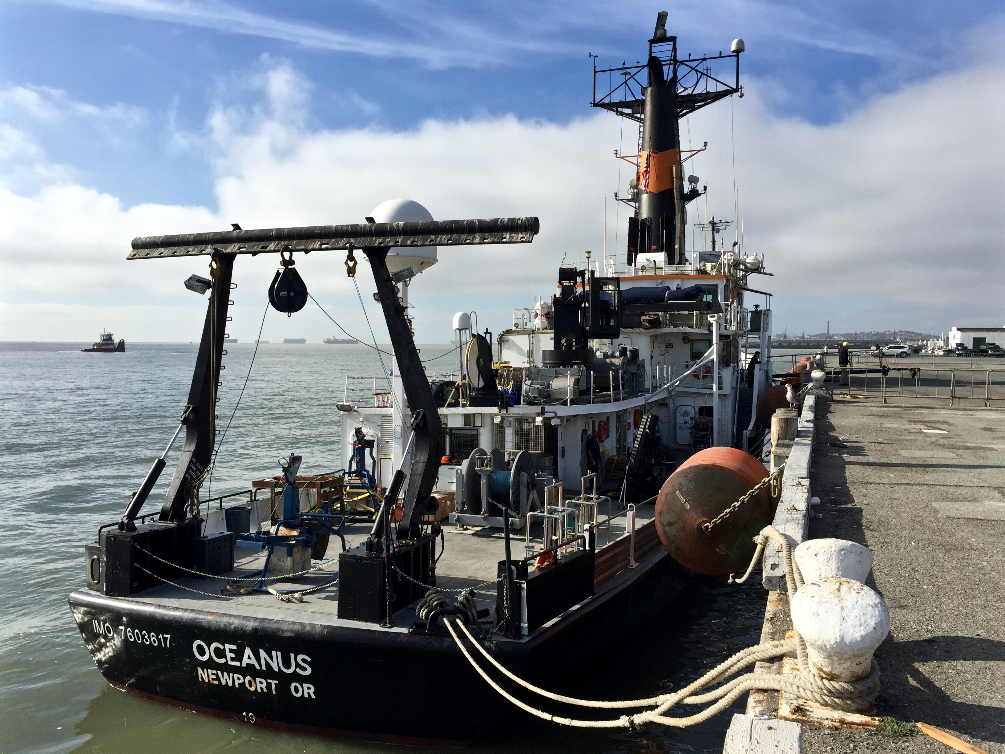 Oregon State University research vessel R/V Oceanus at dock in San Francisco